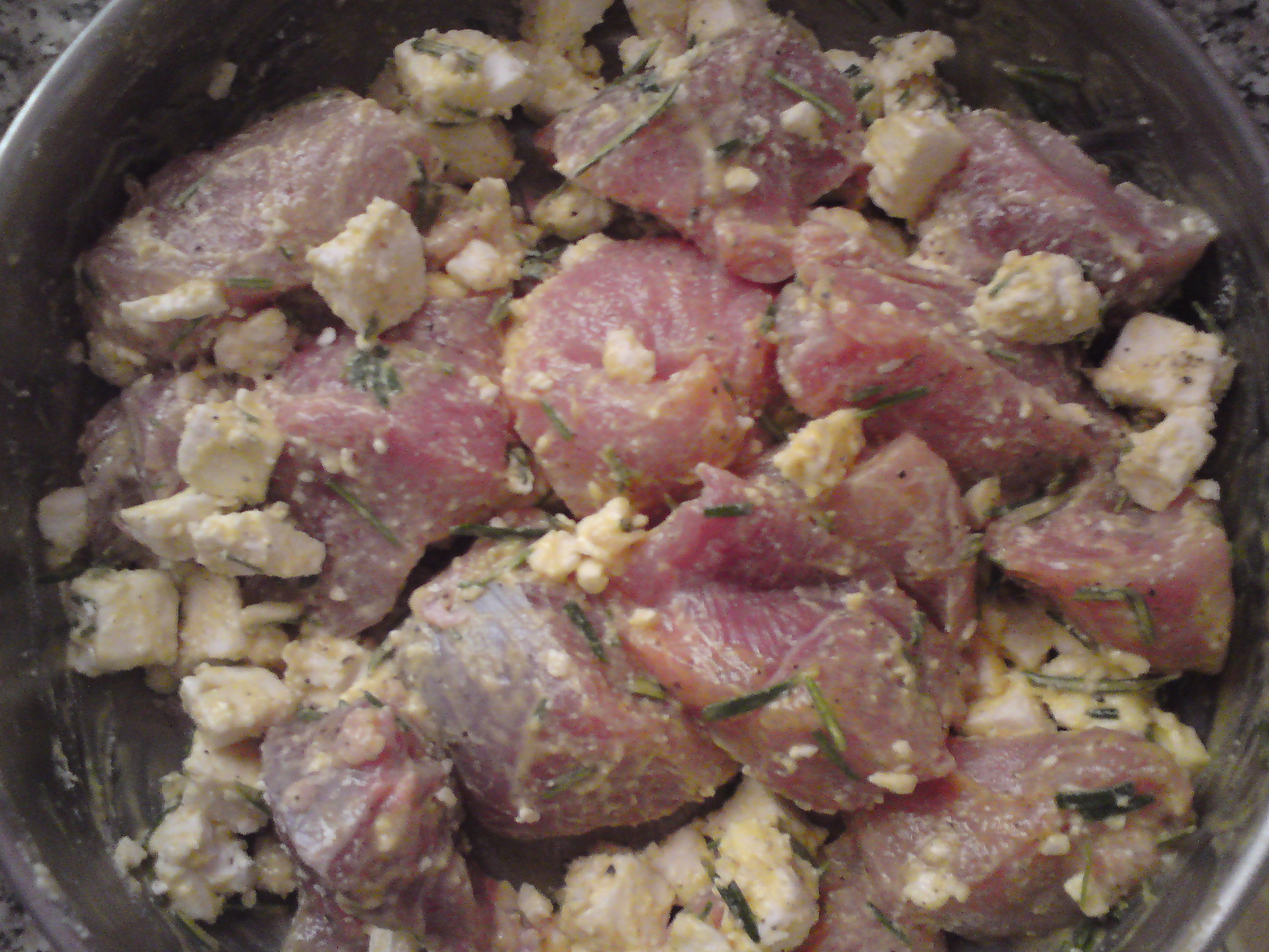 recipe from Greece using pork baked with the pot-herb Mediterranean Hartwort, twigs of rosemary, garlic and crumbled feta cheese